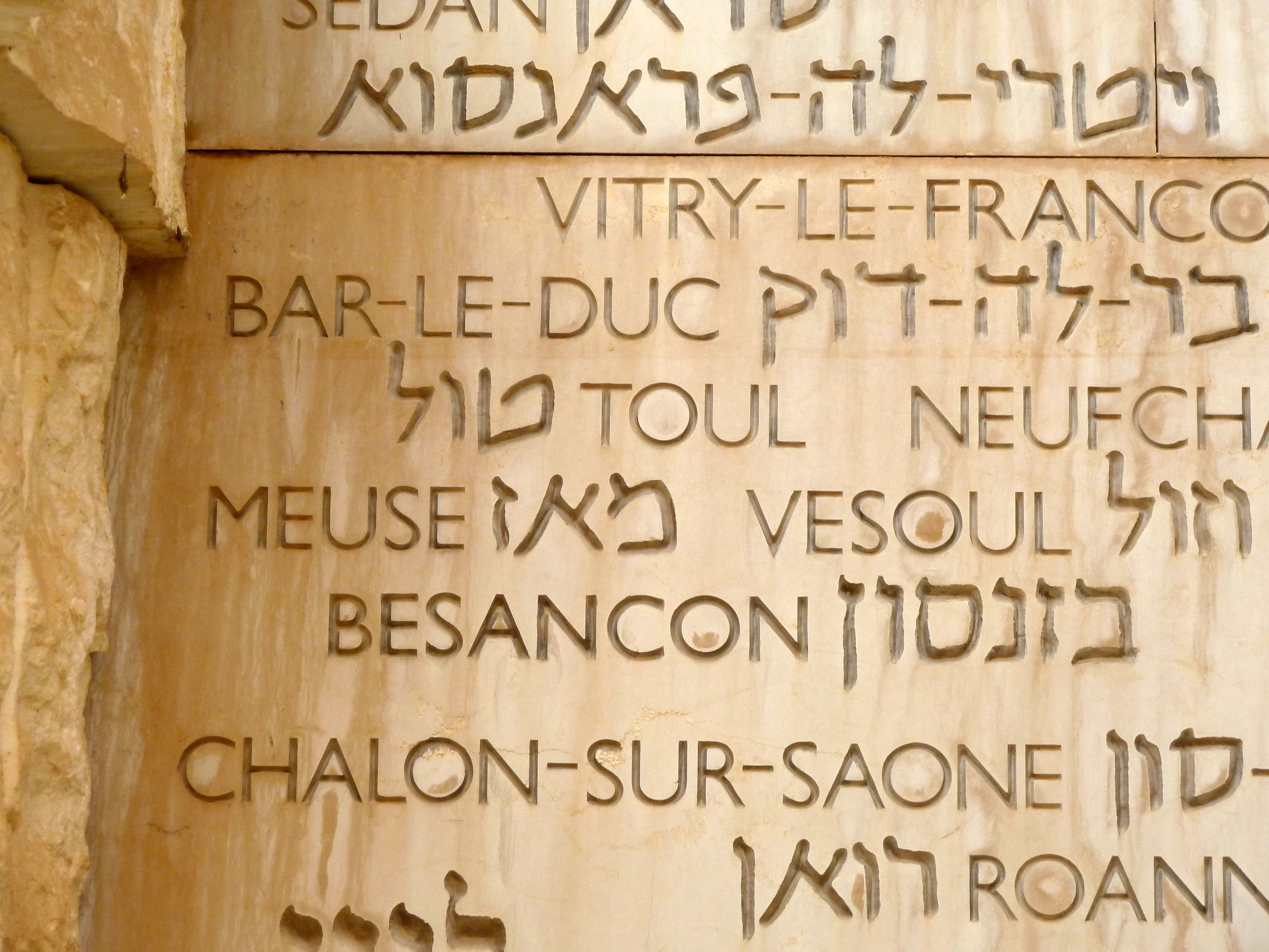 Jerusalem, Yad Vashem, The Valley of the Communities - Names carved in hebrew and in french : Sedan Vitry-le-François Bar-le-Duc Toul Neufchateau Meuse Vesoul Besançon Chalon-sur-Saone Roanne Lyon